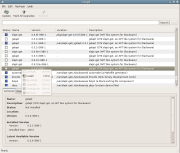 I am the author of this file, created with the Gimp as a screengrab. Nonscaled version available from